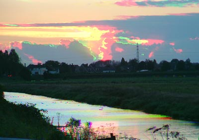 Illustration of the tricolour-effect (Posterization).